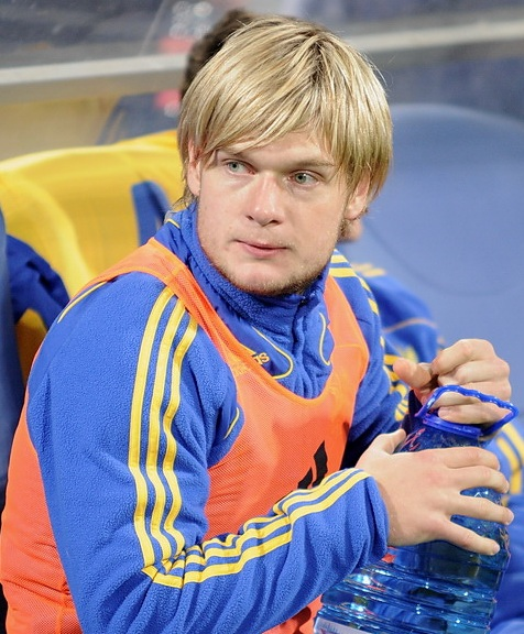 Kyrylo Petrov